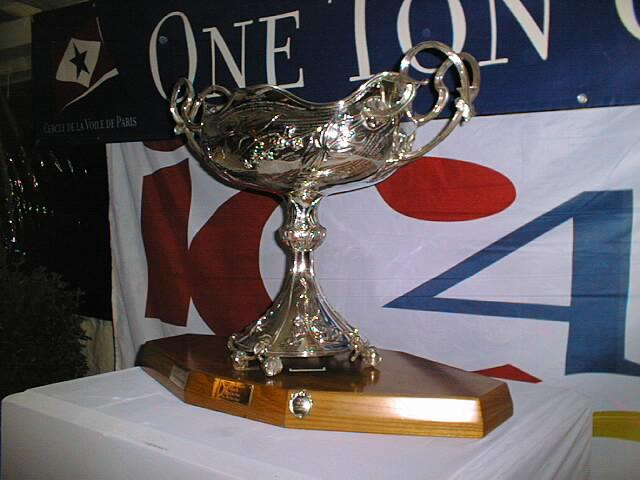 One Ton Cup trophy